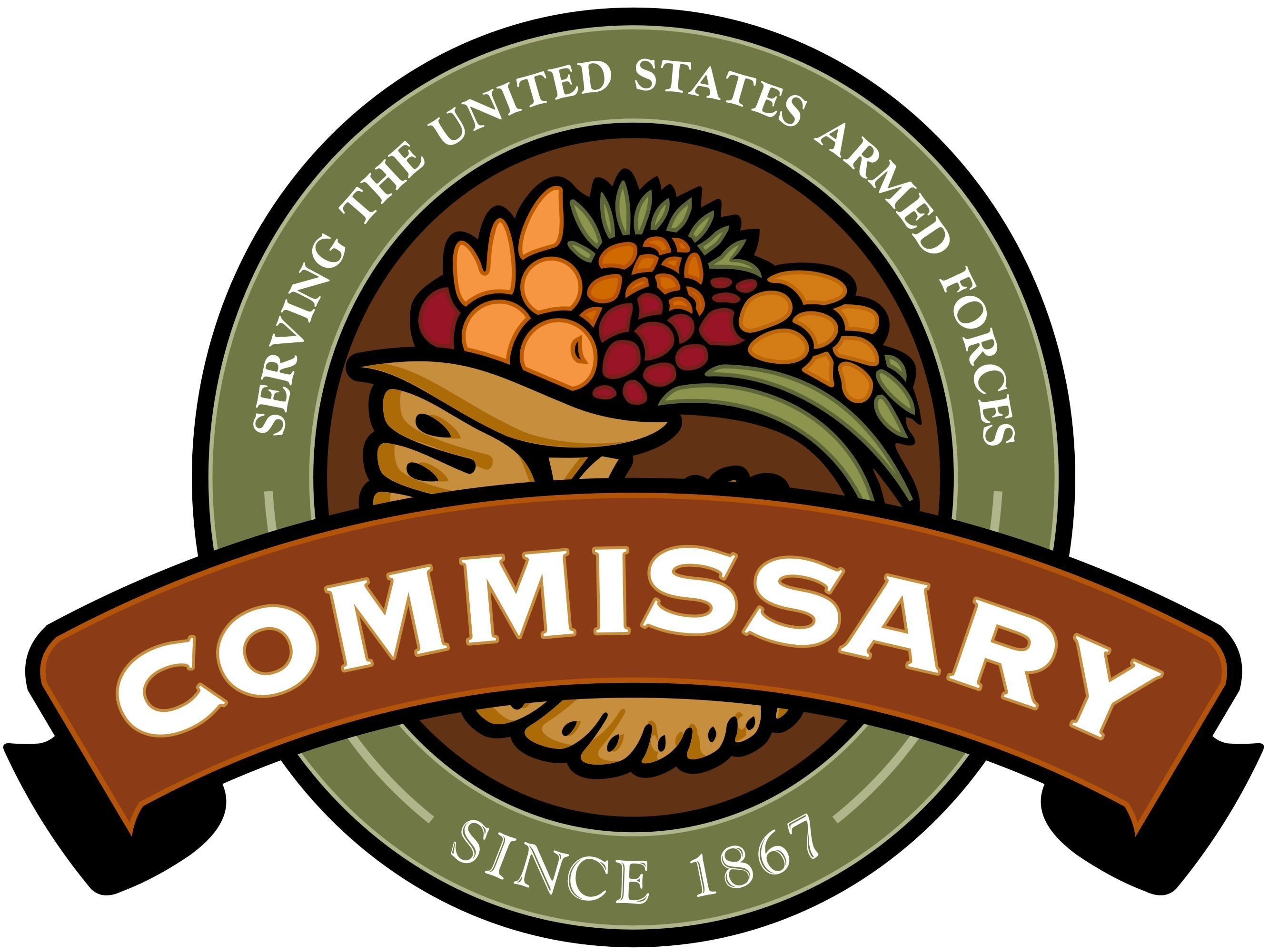 Defense Commissary Agency's unofficial logo used in architectural, print, web and other media signage.